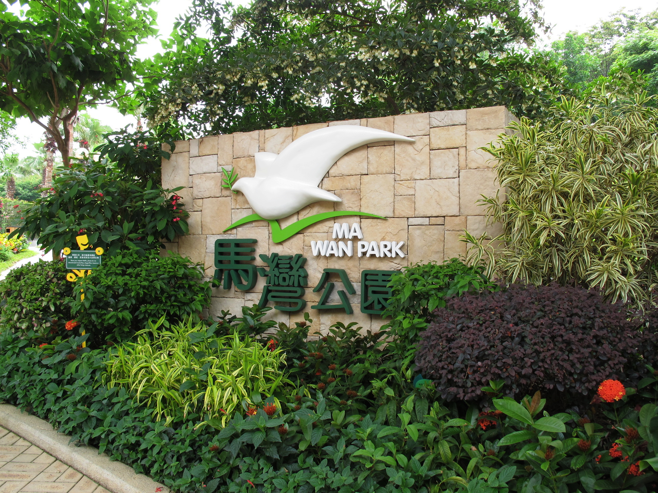 Ma Wan Park Sign